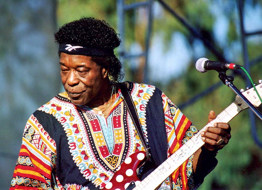 Buddy Guy at the Long Beach Blues Festival